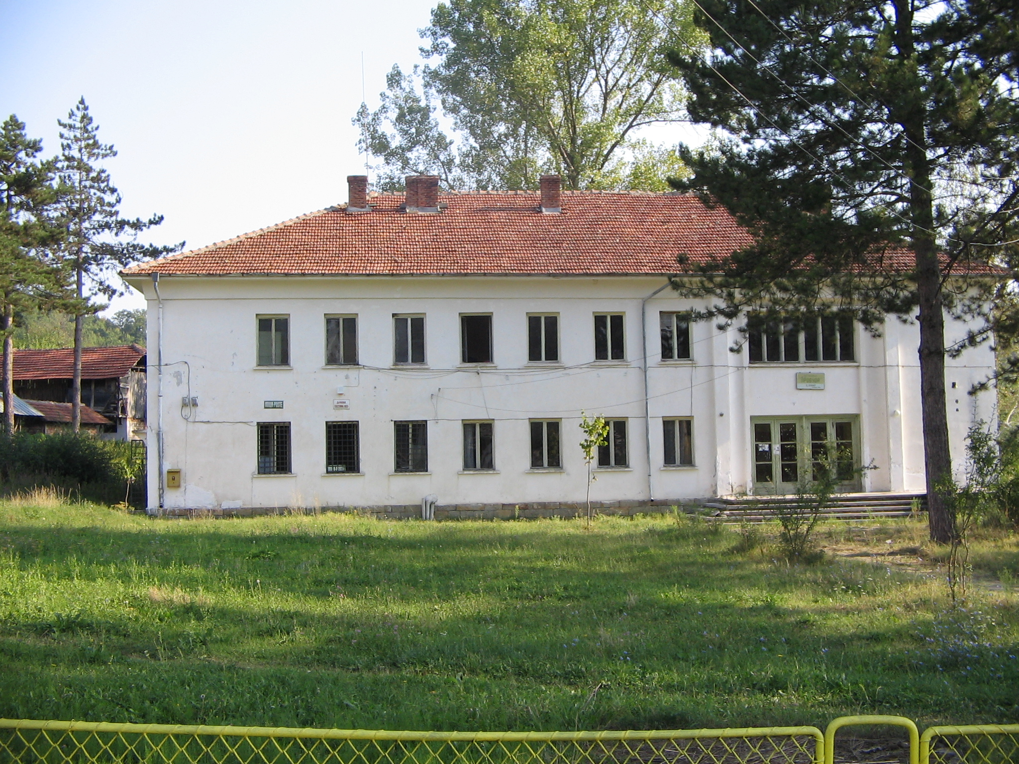 Library and post station in village Sopot, Bulgaria